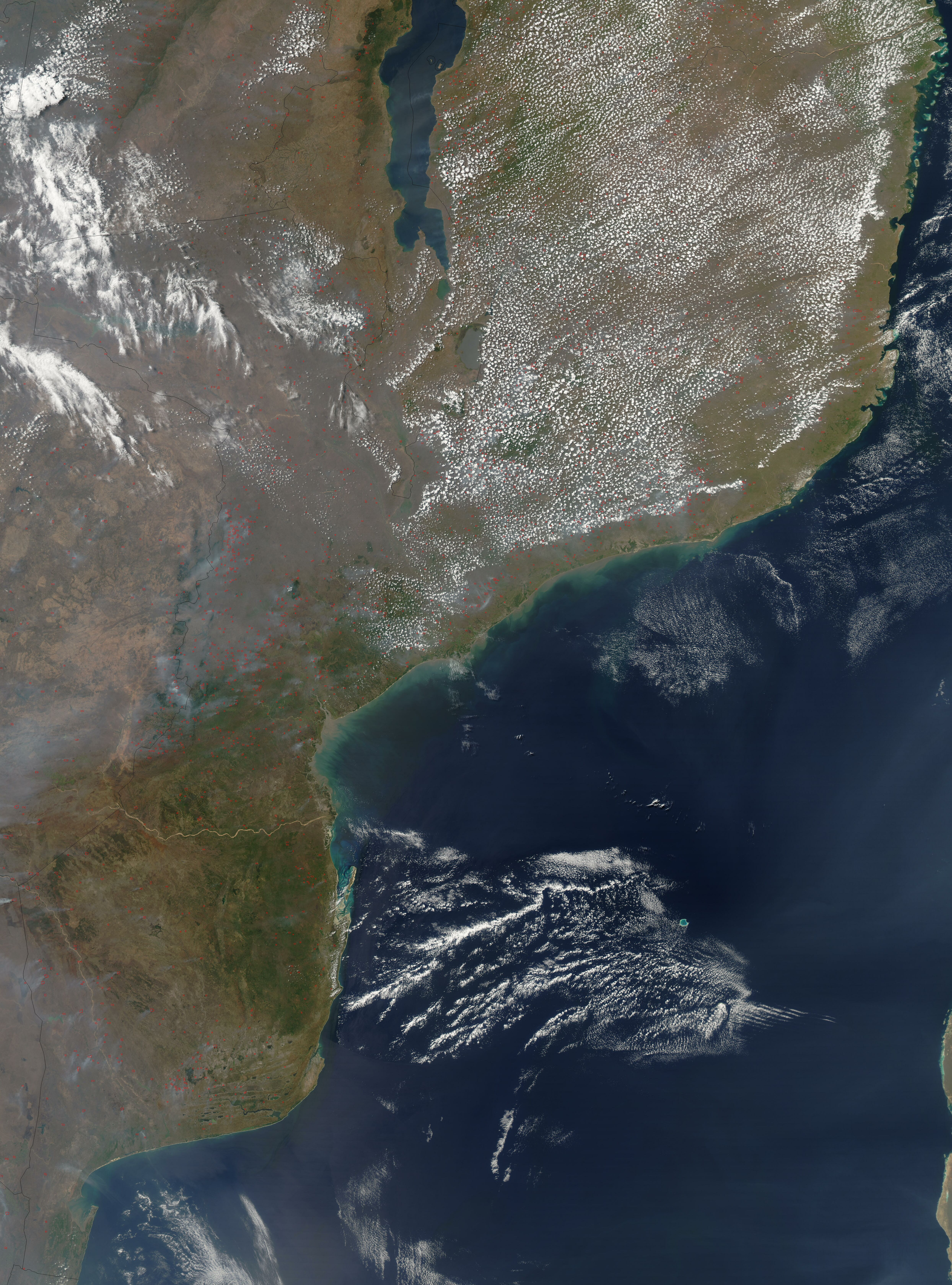 Satellite image of Mozambique in September 2002.